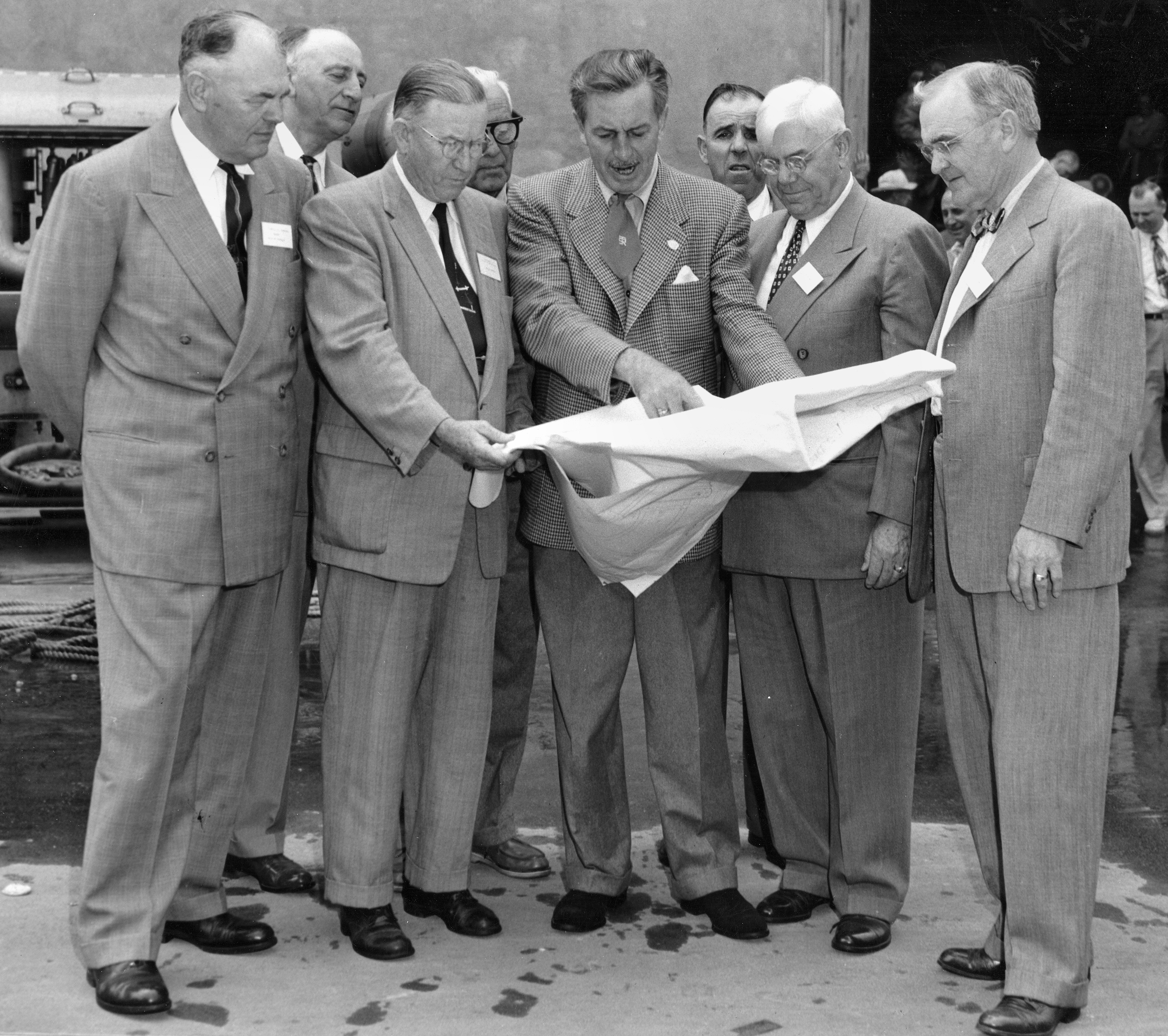 Walt Disney shows Disneyland plans to Orange County officials in December 1954. The men in the front row (left to right) are Anaheim Mayor Charles Pearson, Orange County Supervisor Willis Warner, Walt Disney, Supervisor Willard Smith, and Orange County Planning Commission Chairman Dr. W. L. Bigham. The photo was taken at Disney Studios in Burbank. License on Flickr (2011-03-02): CC-BY-2.0 Flickr tags: Orange County Archives, Orange County, Orange County history, history, historical, California, Southern California, Disneyland